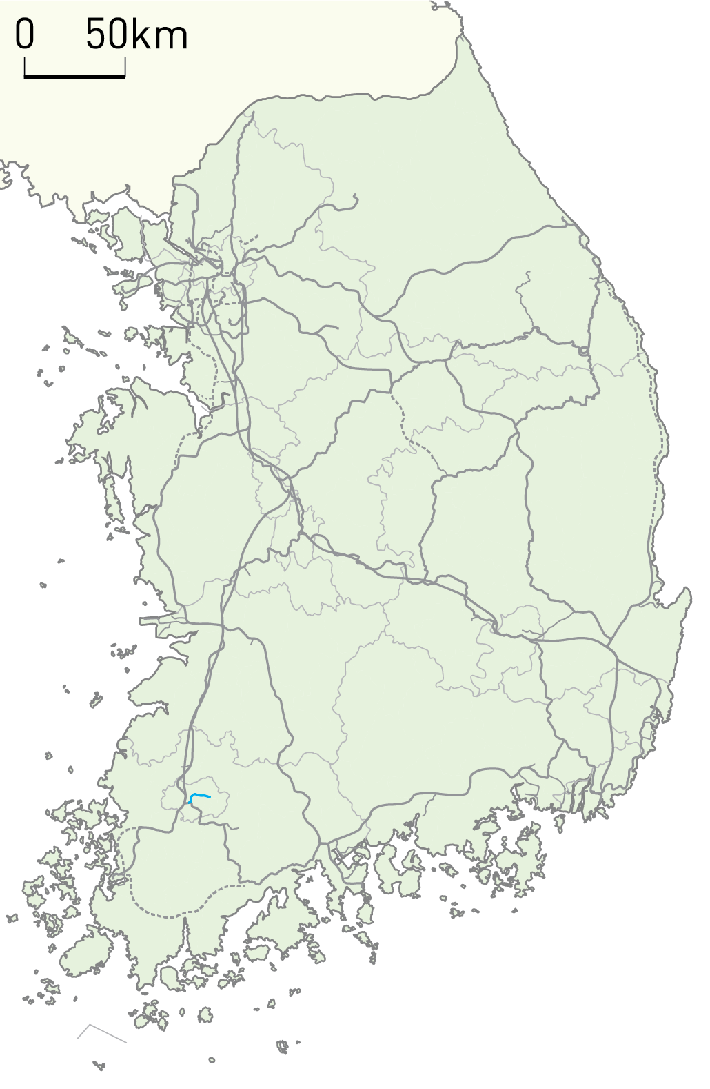 Korail Gwangju Line Routemap